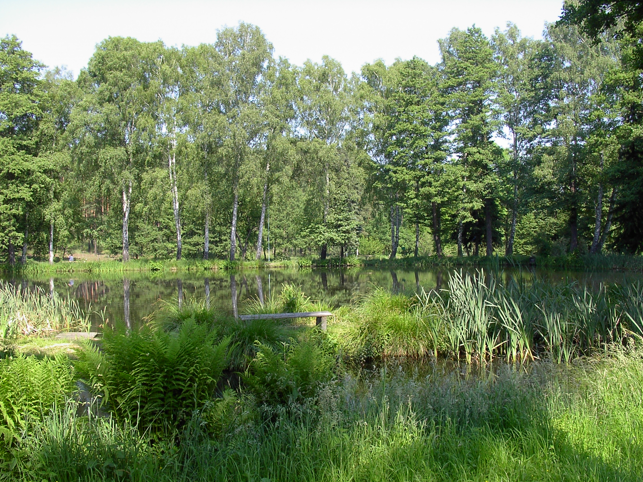 Millpond in Ragoesen. Ragoesen is a part of the town Belzig in Brandenburg, Germany.